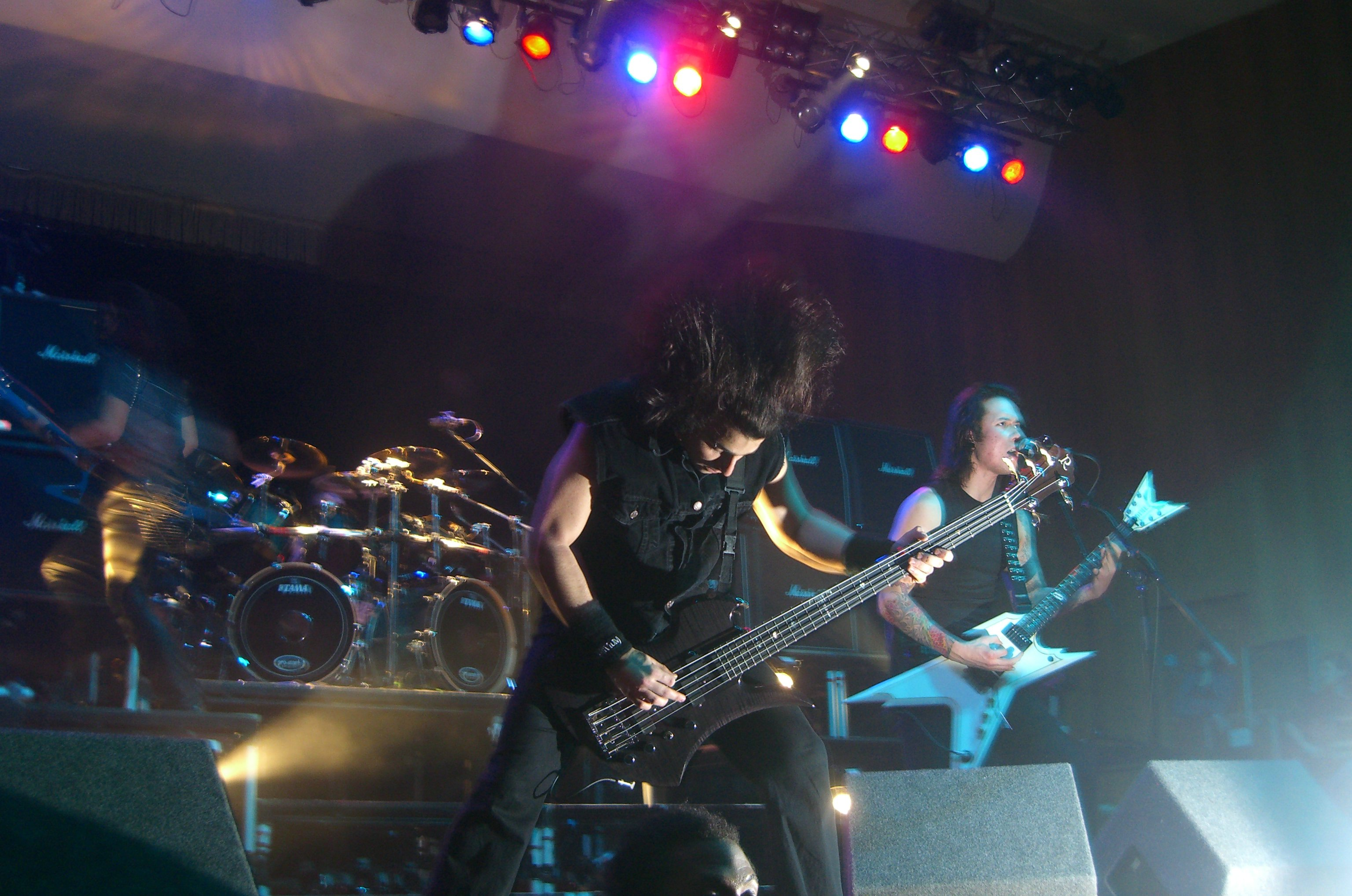 Photo of Paolo performing at Exeter University, UK. This photo was taken on March 2006 at Exeter University, UK during a UK tour by Trivium.